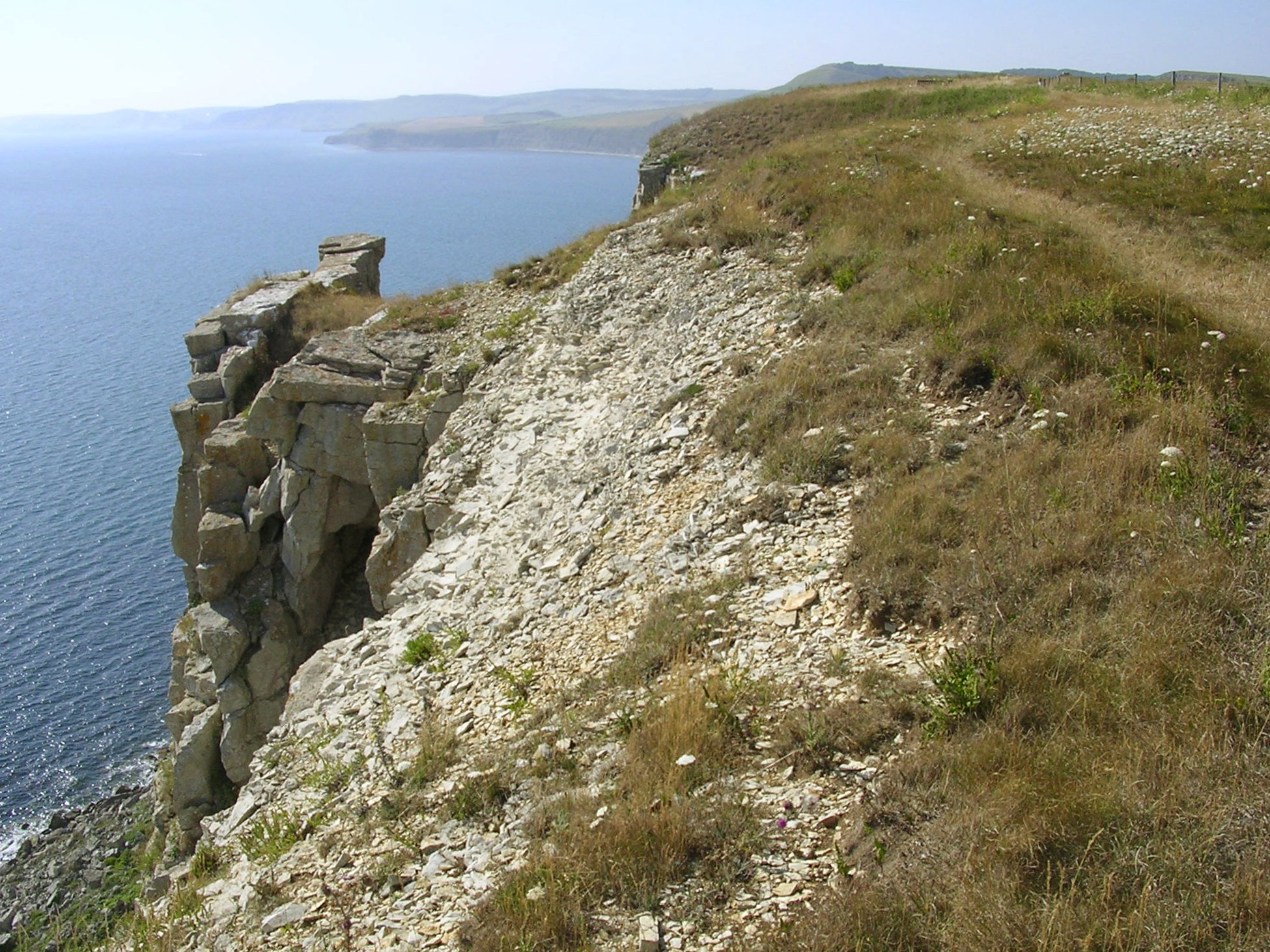 Limestone cliffs at St Aldhelm's Head on the Isle of Purbeck, Dorset